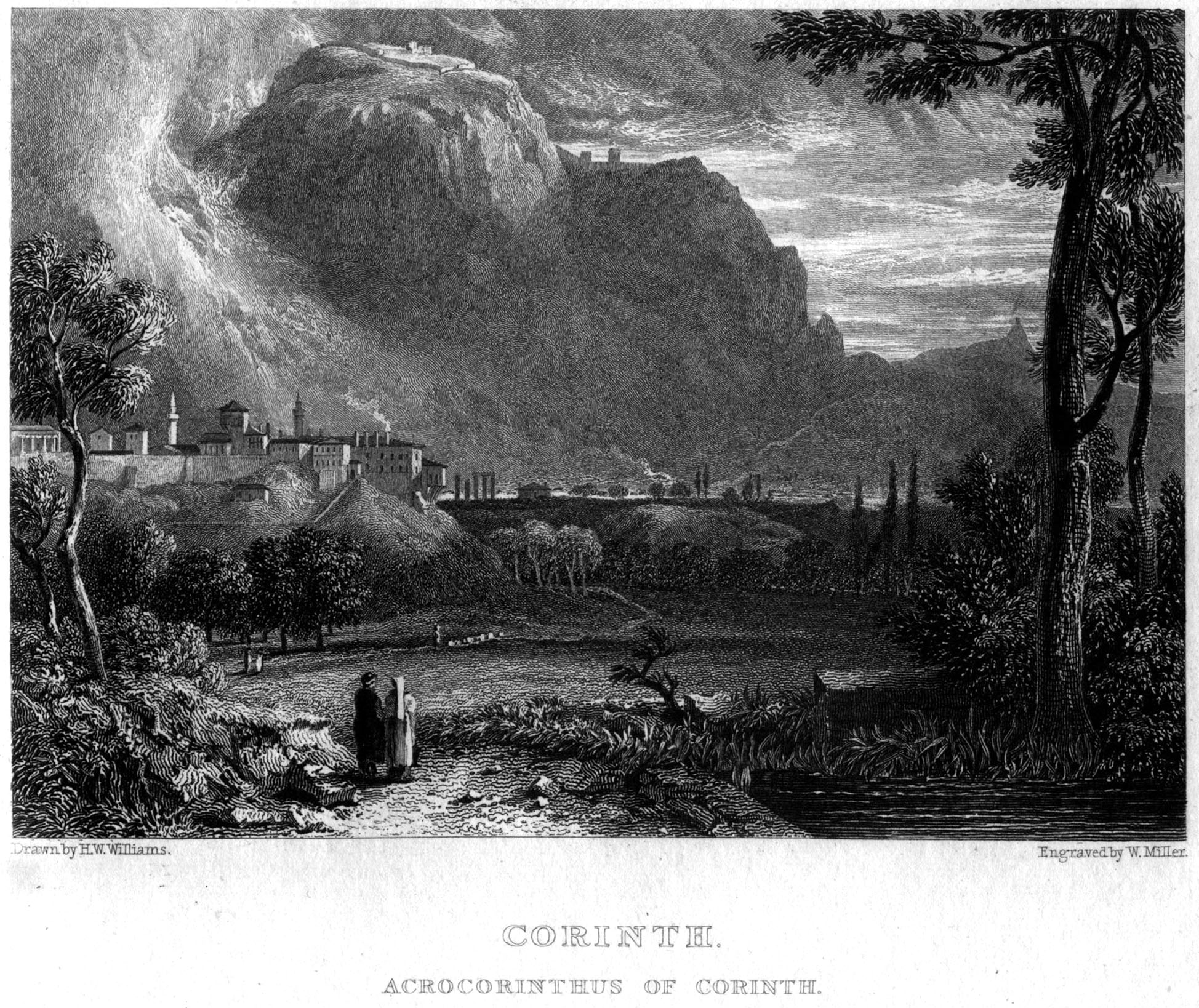 Corinth. Apocorinthus of Corinth engraving by William Miller after H W Williams (Miller paid £13-13-0 in v 1824 for engraving), published in Select Views In Greece With Classical Illustrations. Williams, Hugh William. London: Longman Rees Orme Brown and Green; and Adam Black. 1829